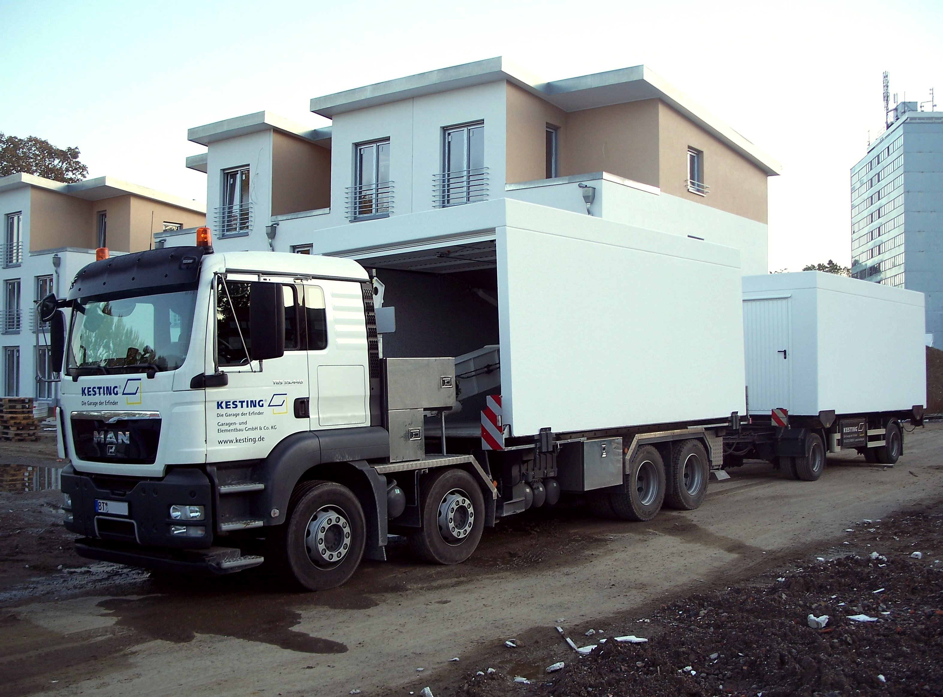 Delivery of premanufactured concrete garages with special truck and trailer.